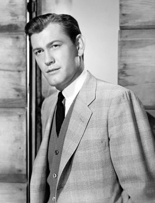 A promotional shot of Golden Globe winning film and TV actor Earl Holliman